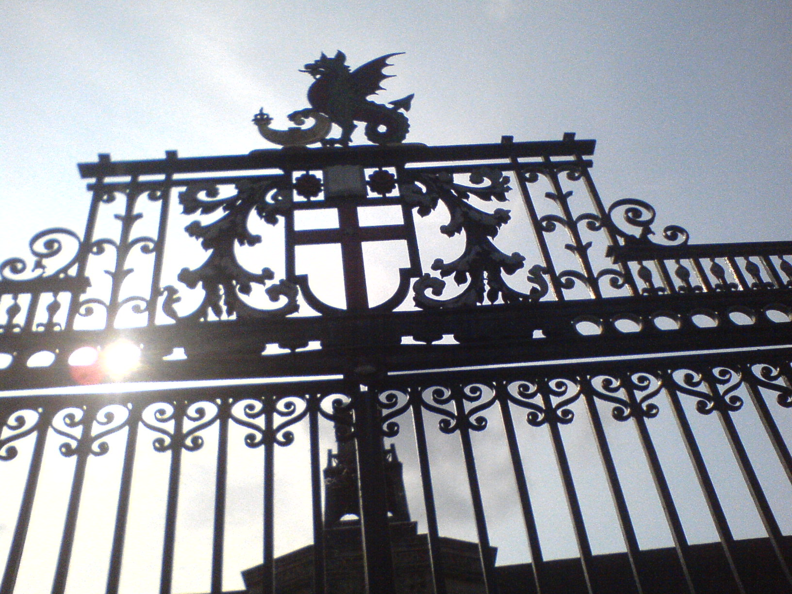 Main Gates into The Leys School